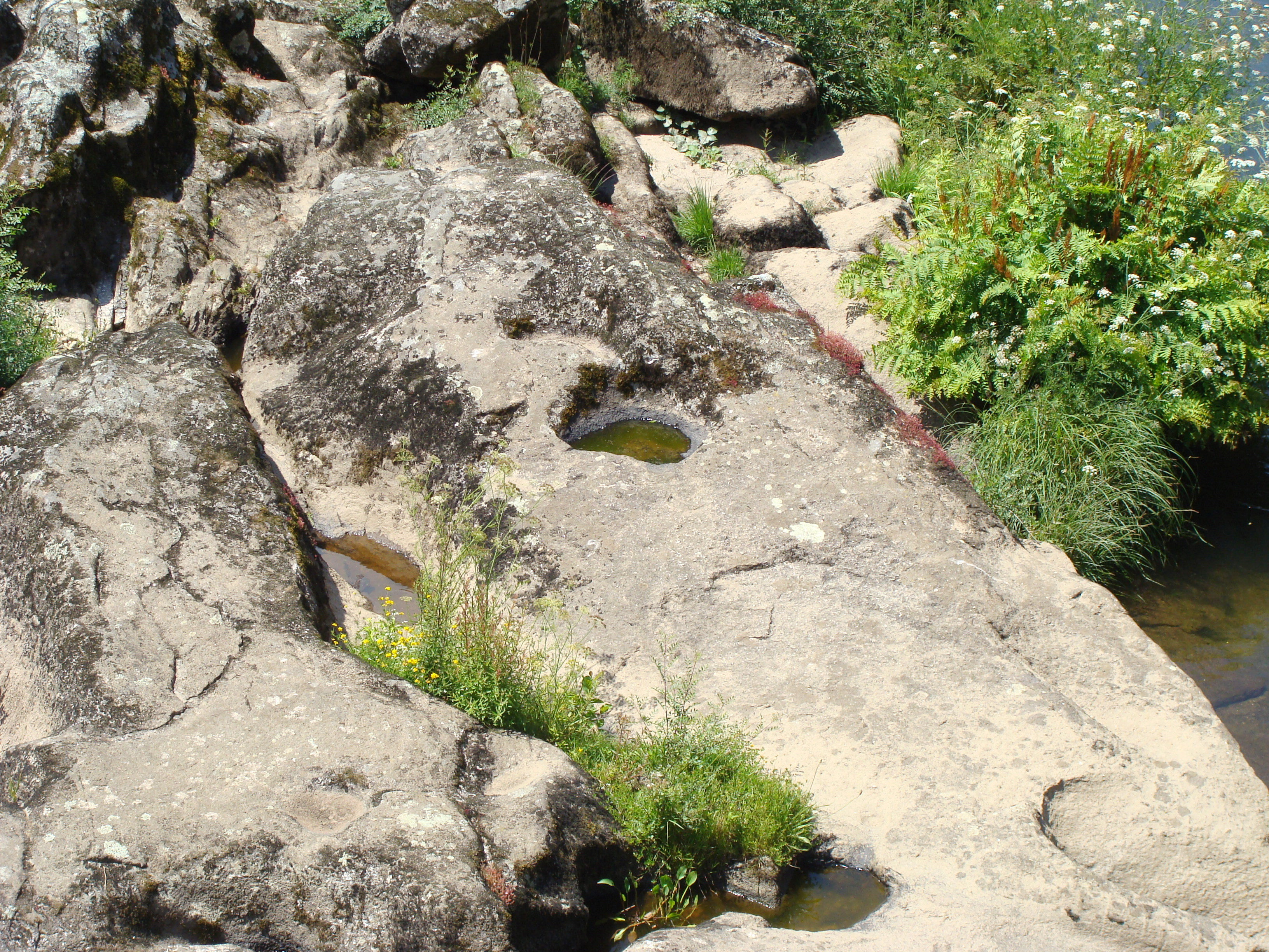 Kettle on a granite boulder, Río Tambre, La Coruña, Spain